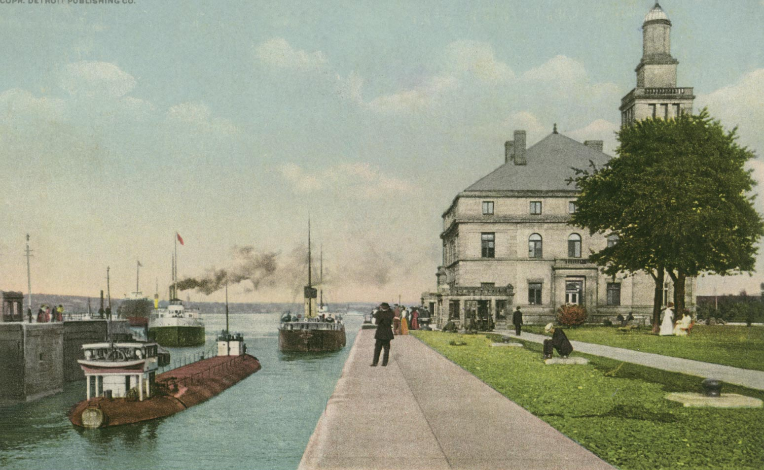 A postcard of an unidentifed whaleback freighter traversing the Poe Lock at Sault Ste. Marie in the early 1900s.